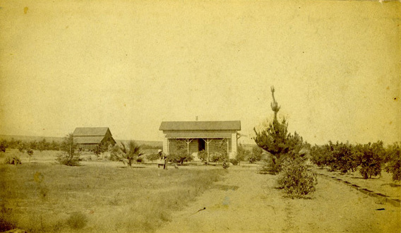 Sepia cabinet photo of two ranch buildings on an orchard in Cucamonga, California photographed in 1884. The image was developed into an 8" x 5" photograph and contains the following inscription on the back: "Cucamunga Calif 1884 C.T. Brown at Tub"